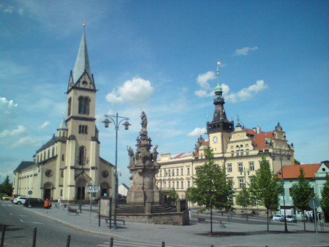 Mayor Pavel Square in Kladno, Czech Republic, with church of the Assumption, Marian column and city hall.